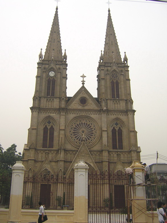 Church of the Sacred Heart in Guangzhou, also known as Guangzhou Cathedral and also as the Stone Building. Iglesia del Sagrado Corazón en Guangzhou, conocida como Catedral de Guangzhou o edificio de piedra.